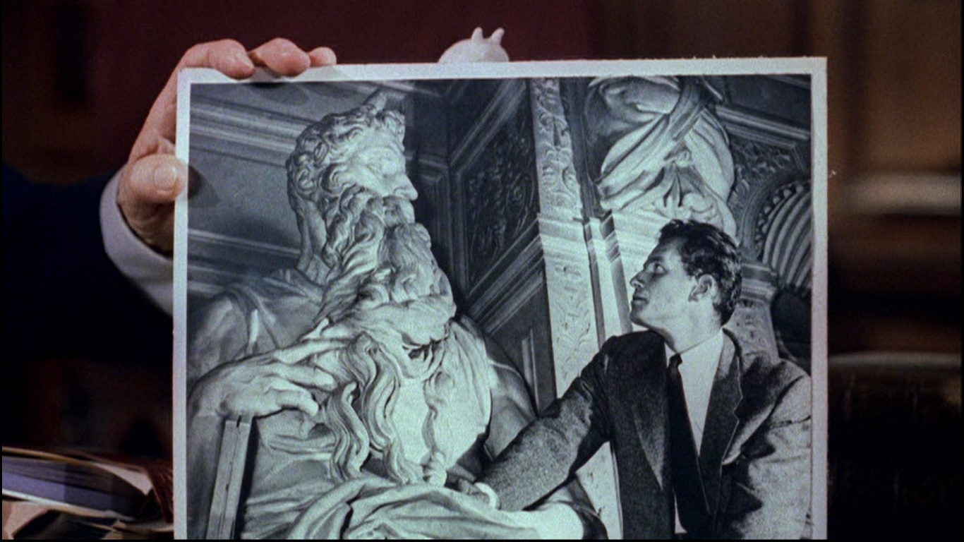 Screenshot of Cecil B. DeMille holding a picture of Charlton Heston and Michelangelo's statue of Moses from the trailer for the film The Ten Commandments.